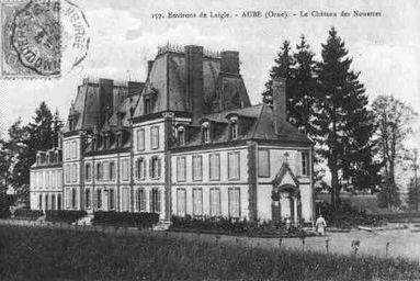 Chateau des Nouettes in Aube, Orne (Normandie), residence of the Countess of Ségur